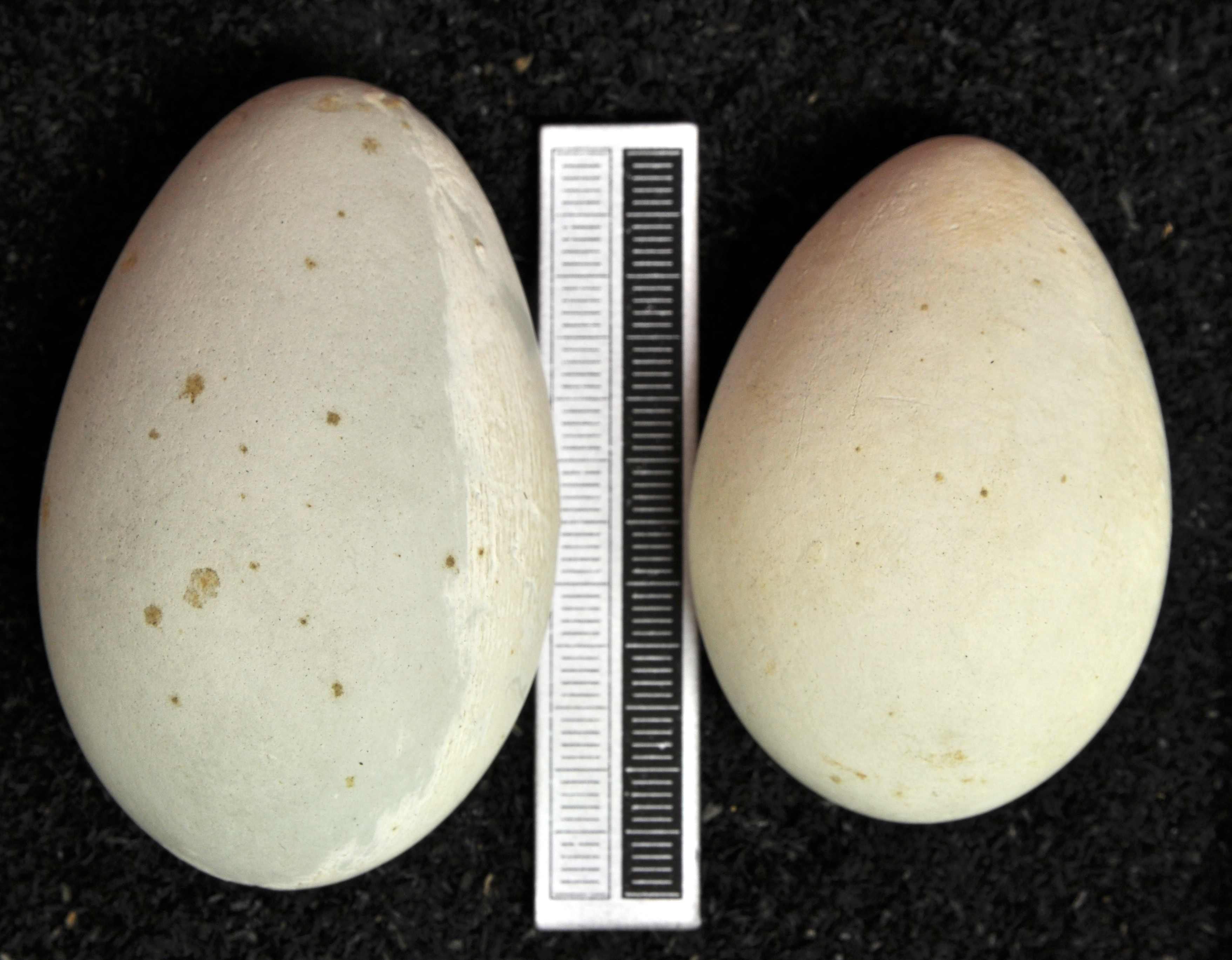 Double-crested cormorant Phalacrocorax auritus , egg, Coll. Museum Wiesbaden